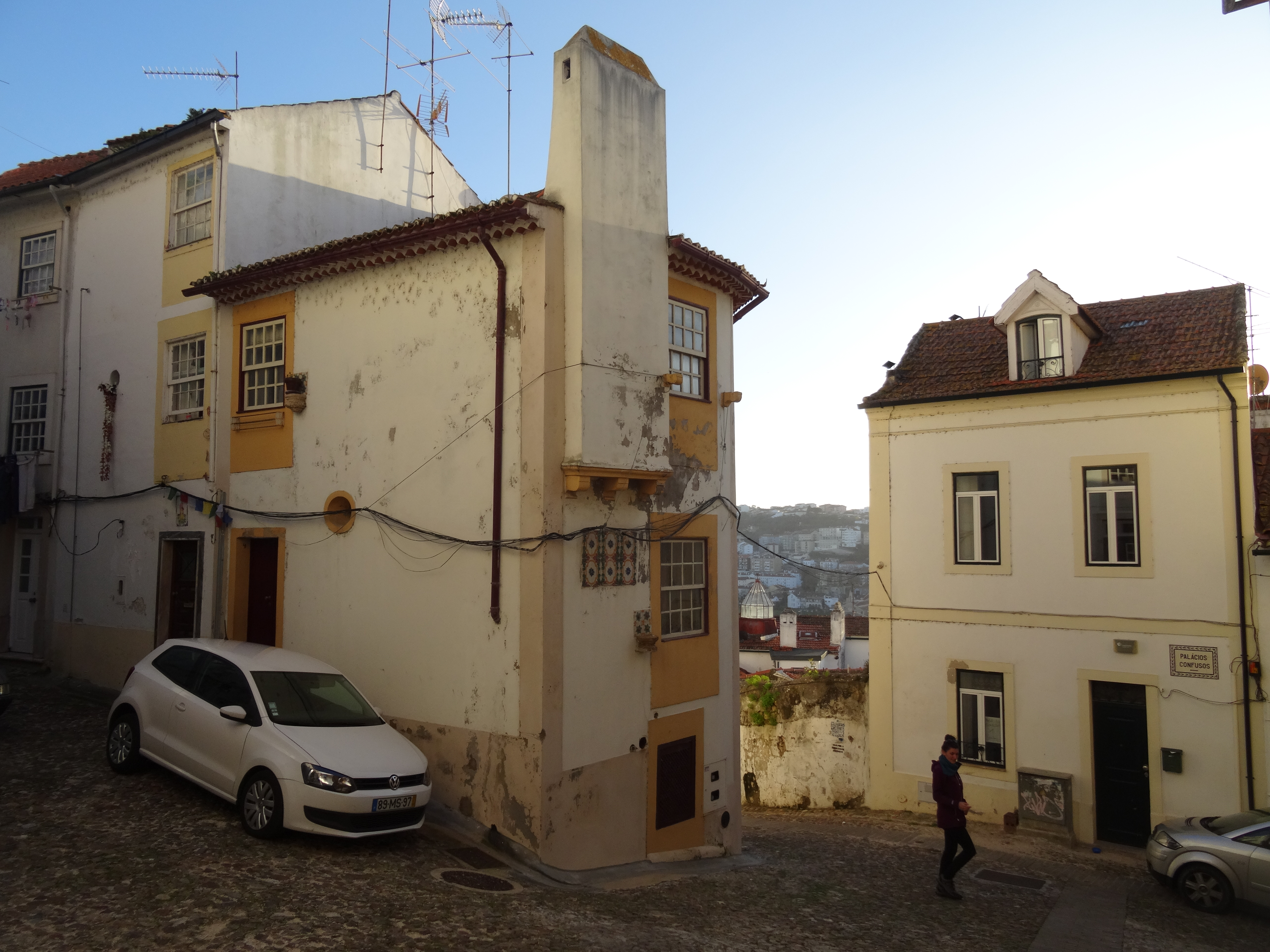 Houses in Coimbra